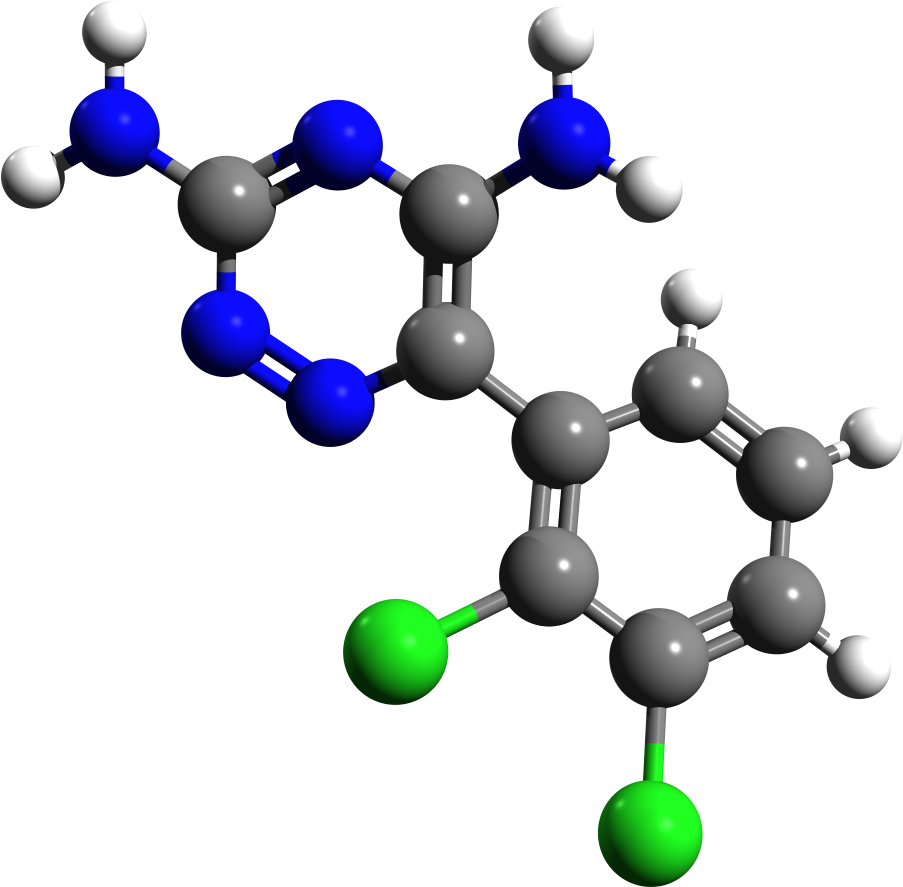 Lamotrigine structure